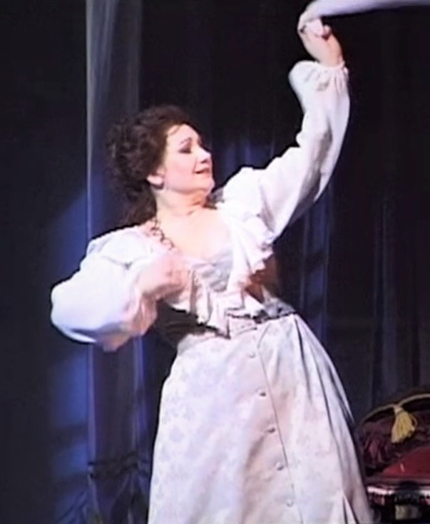 Cheryl Studer filmed at Bayerische Staatsoper München, performing in the operetta Die Fledermaus by Johan Strauss. Amongst the sopranos Eddy Seesing investigated posture, pose and clothing as characterizations of professional profile. During the photo rehearsal each soprano is followed closely with a video camera, trying to isolate them. From these video recordings a fragment of each soprano is selected varying in length between 30 seconds and one minute. Seesing concentrated on the focal point of the drama, the soprano's: Expression, Mimicry, Facial distortions during vocal climaxes, Postures and Gesticulation. To emphasize these elements slow motion is used - 10 times slower than the normal speed. The short pieces thus created are constantly repeated in a loop. Six video's are simultaneously projected onto the exhibition space's walls, one per soprano. A sound fragment of every soprano each with a maximum duration of 3 minutes is played in the installation separate from the video images.